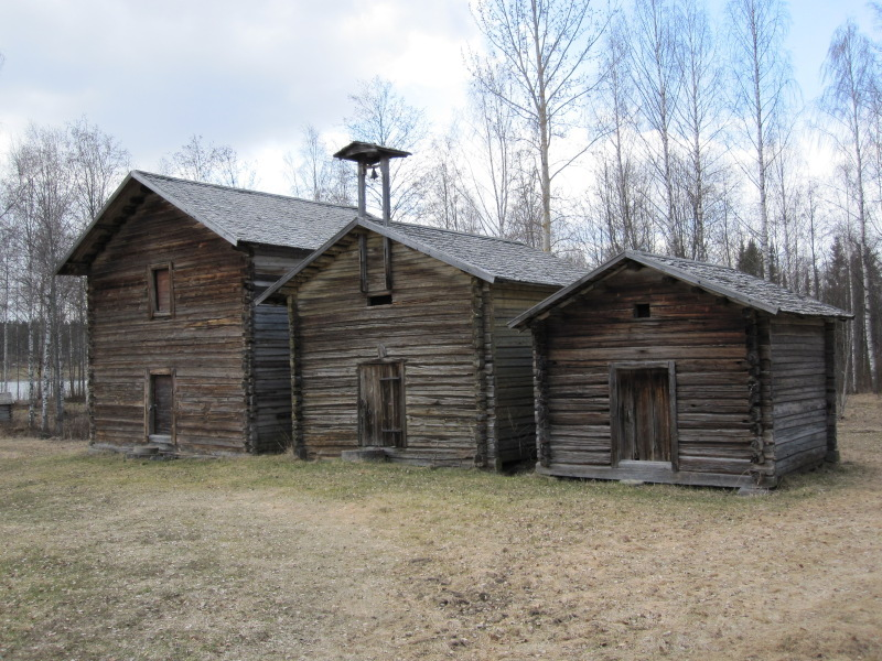 Local history museum of Upper Savonia